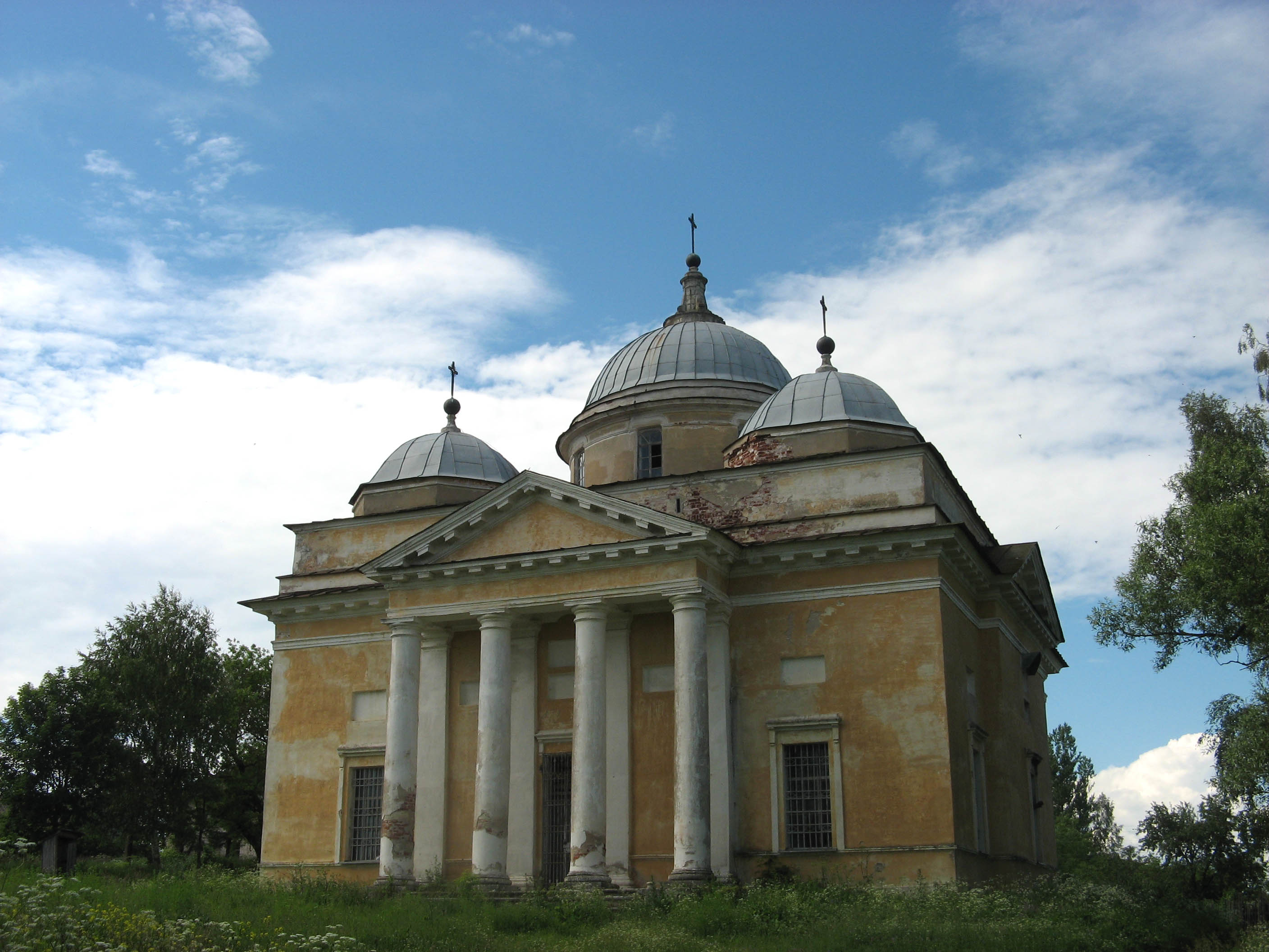 Staritsa, Saints Boris and Gleb Church. Built in 1803-27 at the site of a "dilapidated" tented-roof church, dating back to 1558-61.